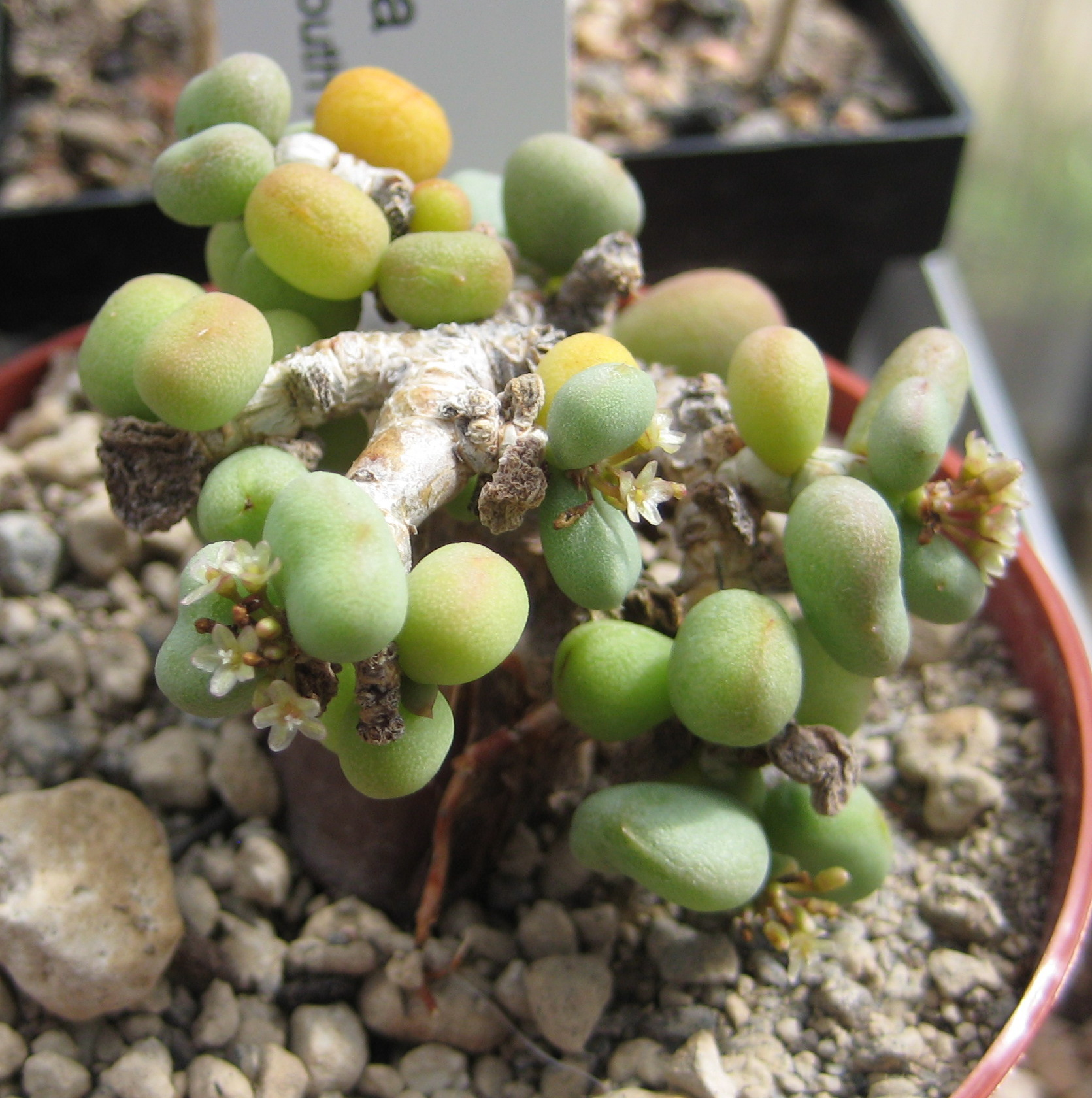 Portulacaria pygmaea, previously Ceraria pygmaea — Pygmy porkbush. Native to the border between Namibia and South Africa.